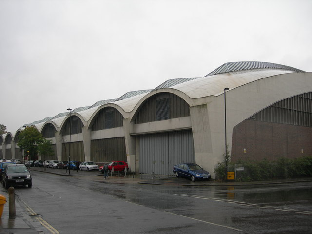 Stockwell Bus Garage (1) Picture taken at the corner of Binfield Road and Lansdowne Way. This depot was opened in 1952. At the time of construction it was the largest unsupported area under one roof in Europe. It is now a Grade II listed building. Click this link to read more Stockwell_Garage